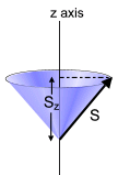 S projecting onto z axis, demonstrating spin (intrinsic angular momentum) in fundamental particles related to the Stern-Gerlach experiment